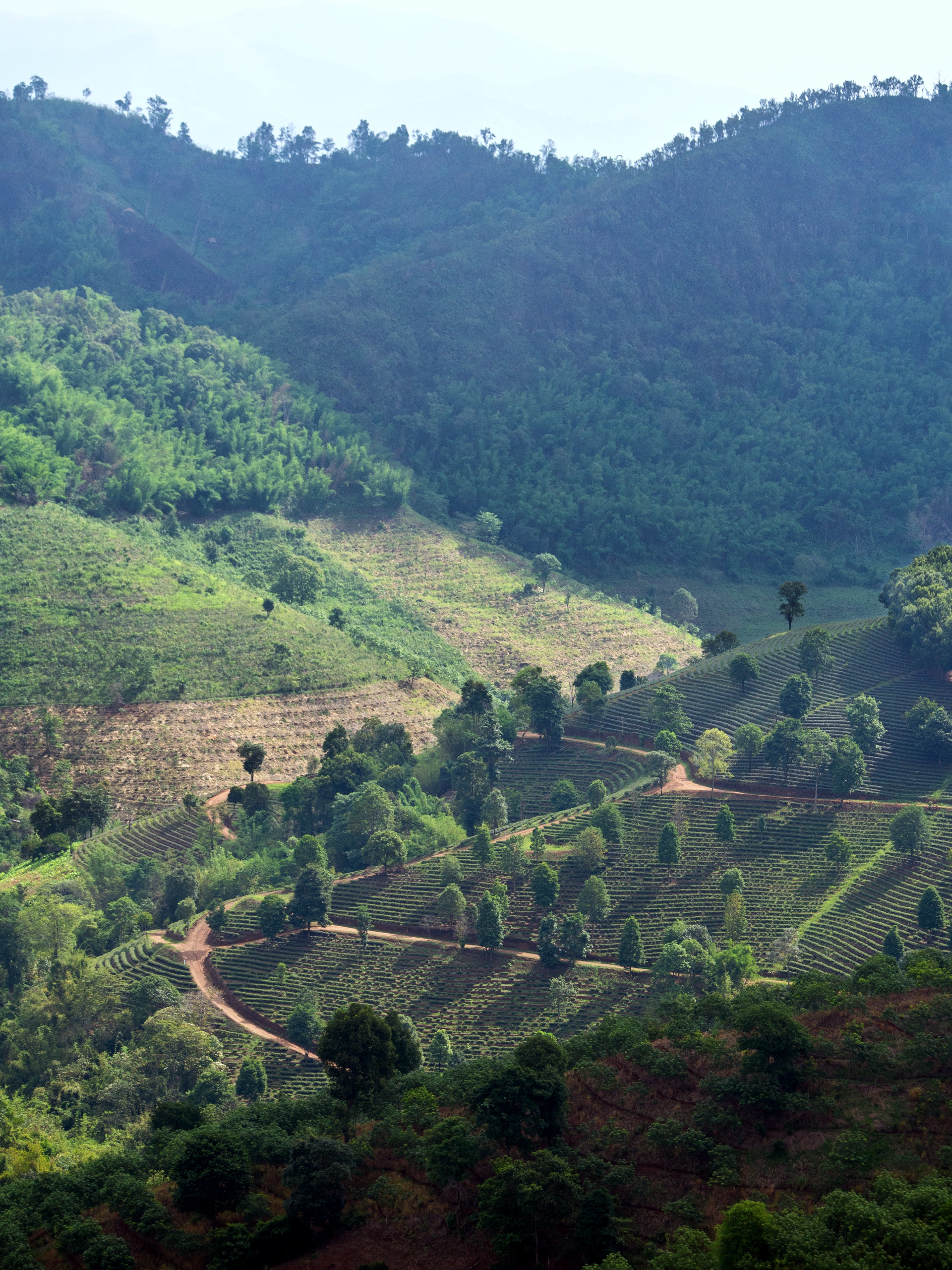 Tea plantations at Mae Salong about a month into the rainy season.